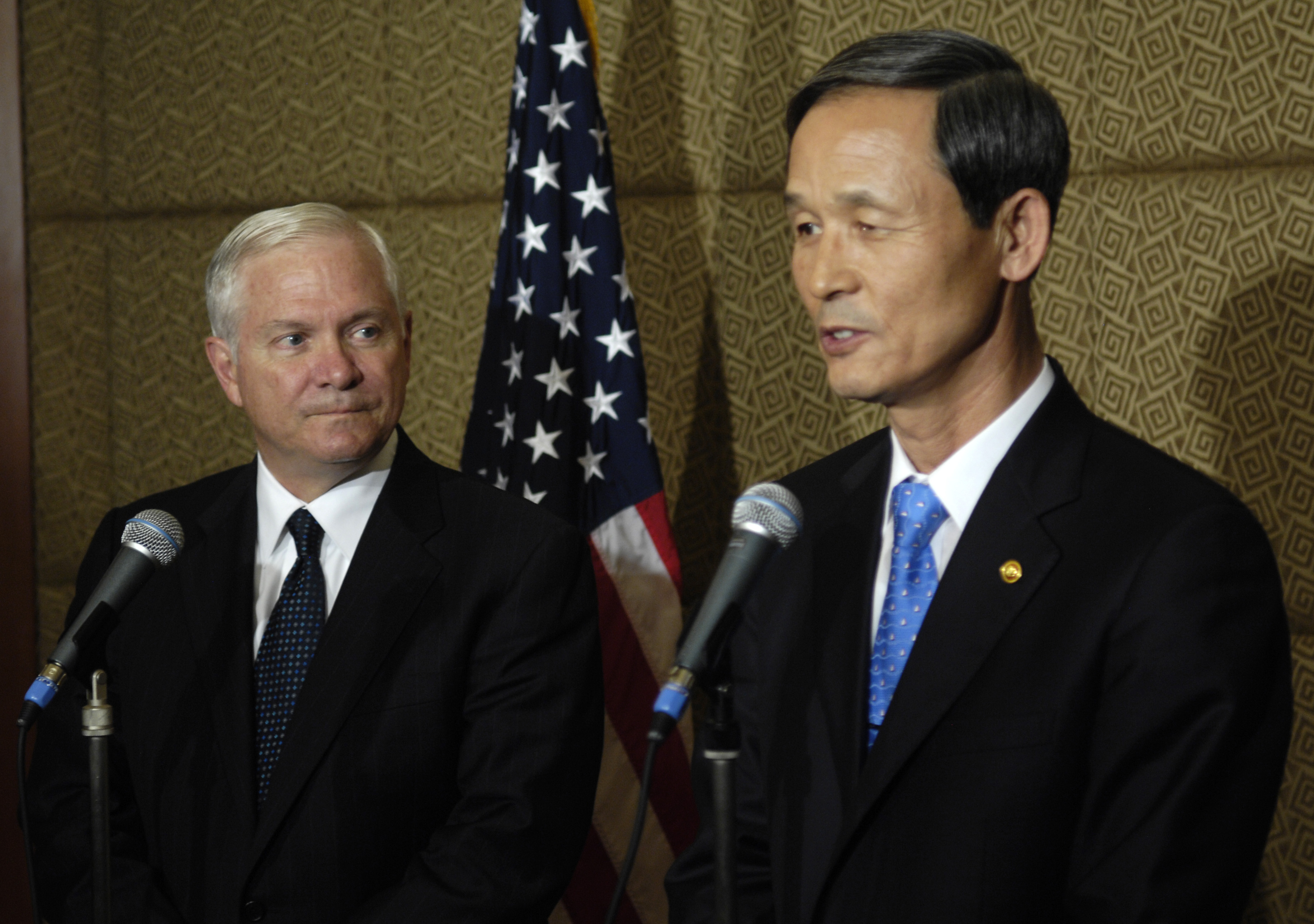 Secretary of Defense Robert M. Gates (left) listens as South Korean Minister of Defense Kim Jang-soo answers a reporter's question during a press conference in Singapore on June 2, 2007. Gates and Kim are in Singapore to attend the 6th International Institute for Strategic Studies conference, the Shangri-La dialogue.